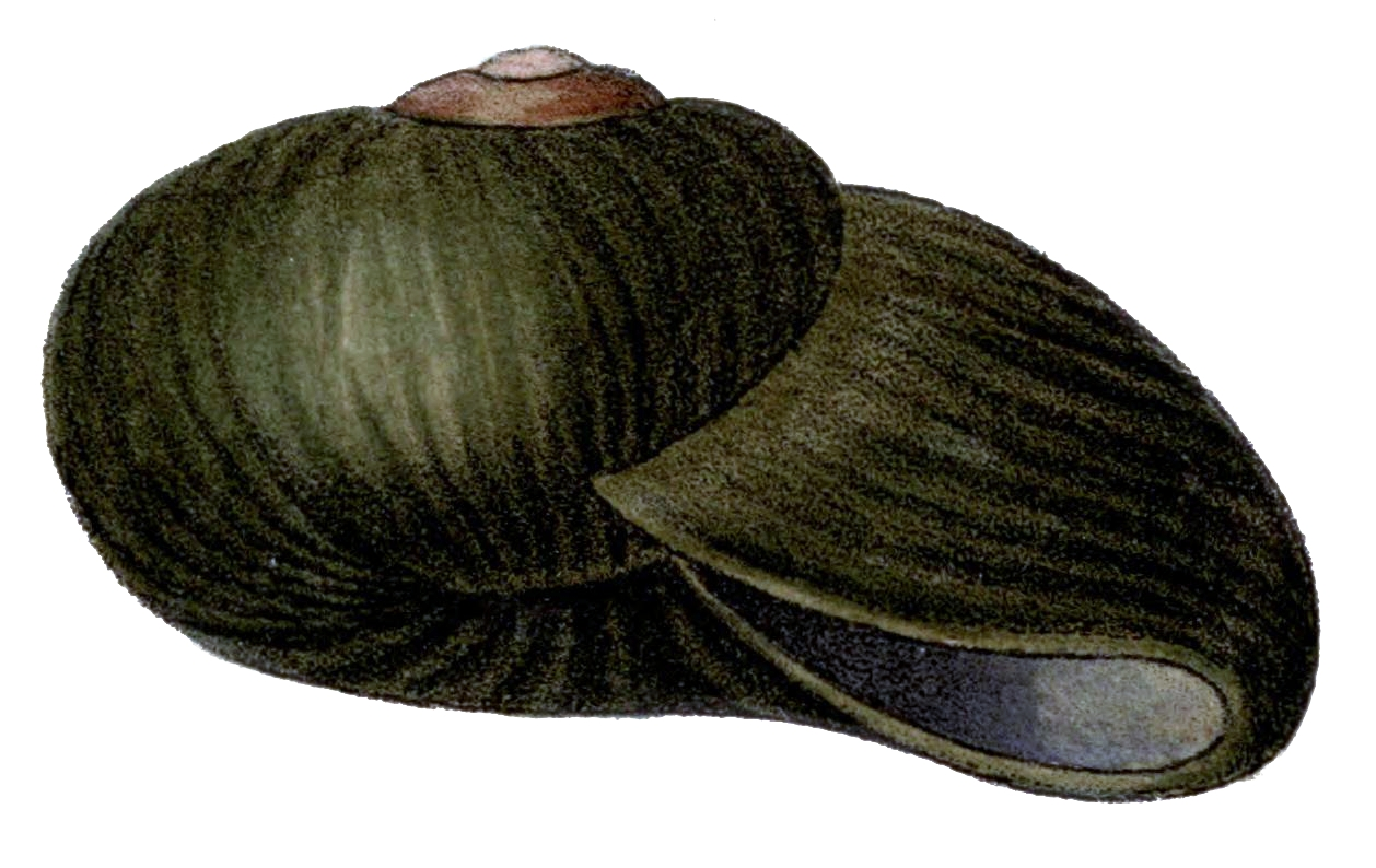 Apertural view of the shell of Paryphanta busbyi.